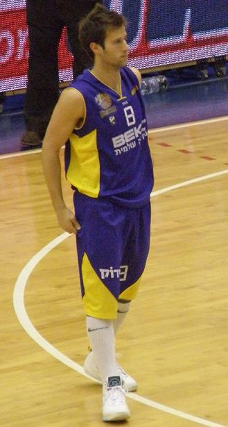 Niv Berkovic, Israeli basketball player, playing for Hapoel Holon (2010). He is the son of Miki Berkovic